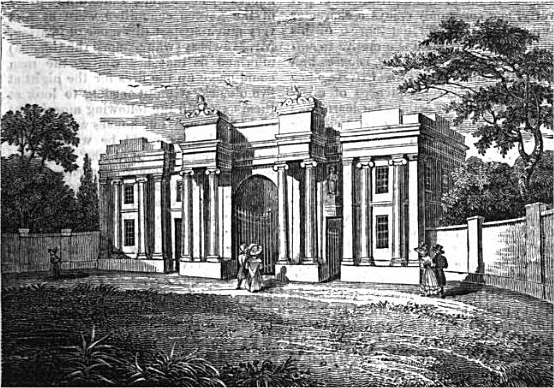 Image of The Entrance to the Botanic Gardens Manchester taken (via Google books) from p129 of "The Mirror of Literature, Amusement and Instruction" (Vol 19, 3 March 1832) by Reuben Percy and John Timbs.